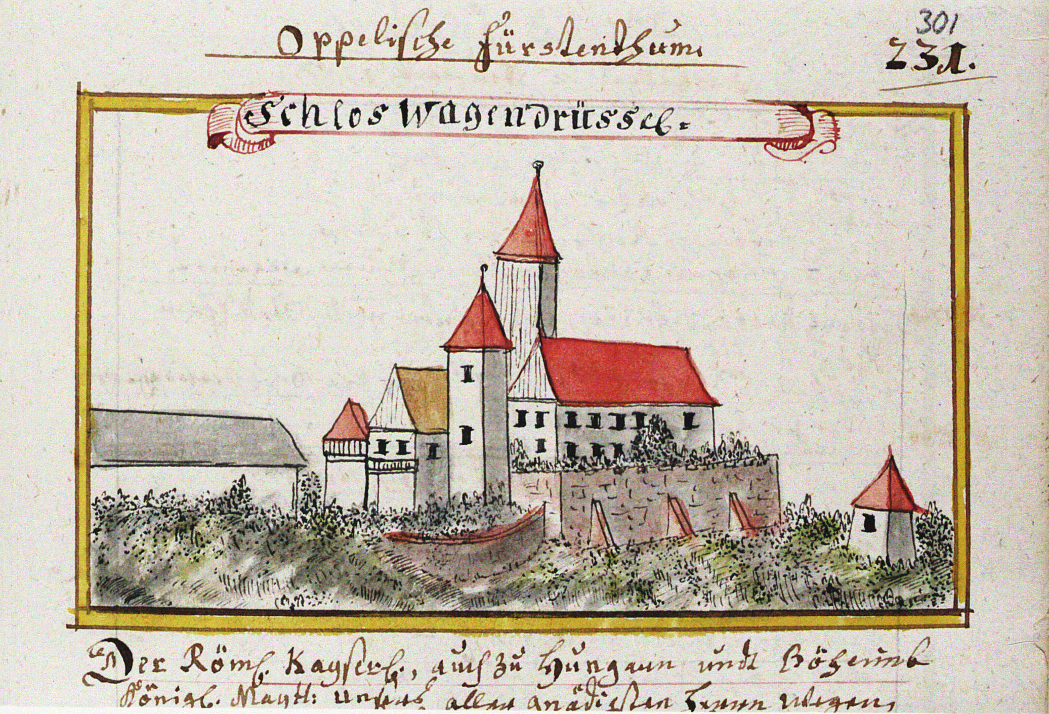 Prudnik Castle